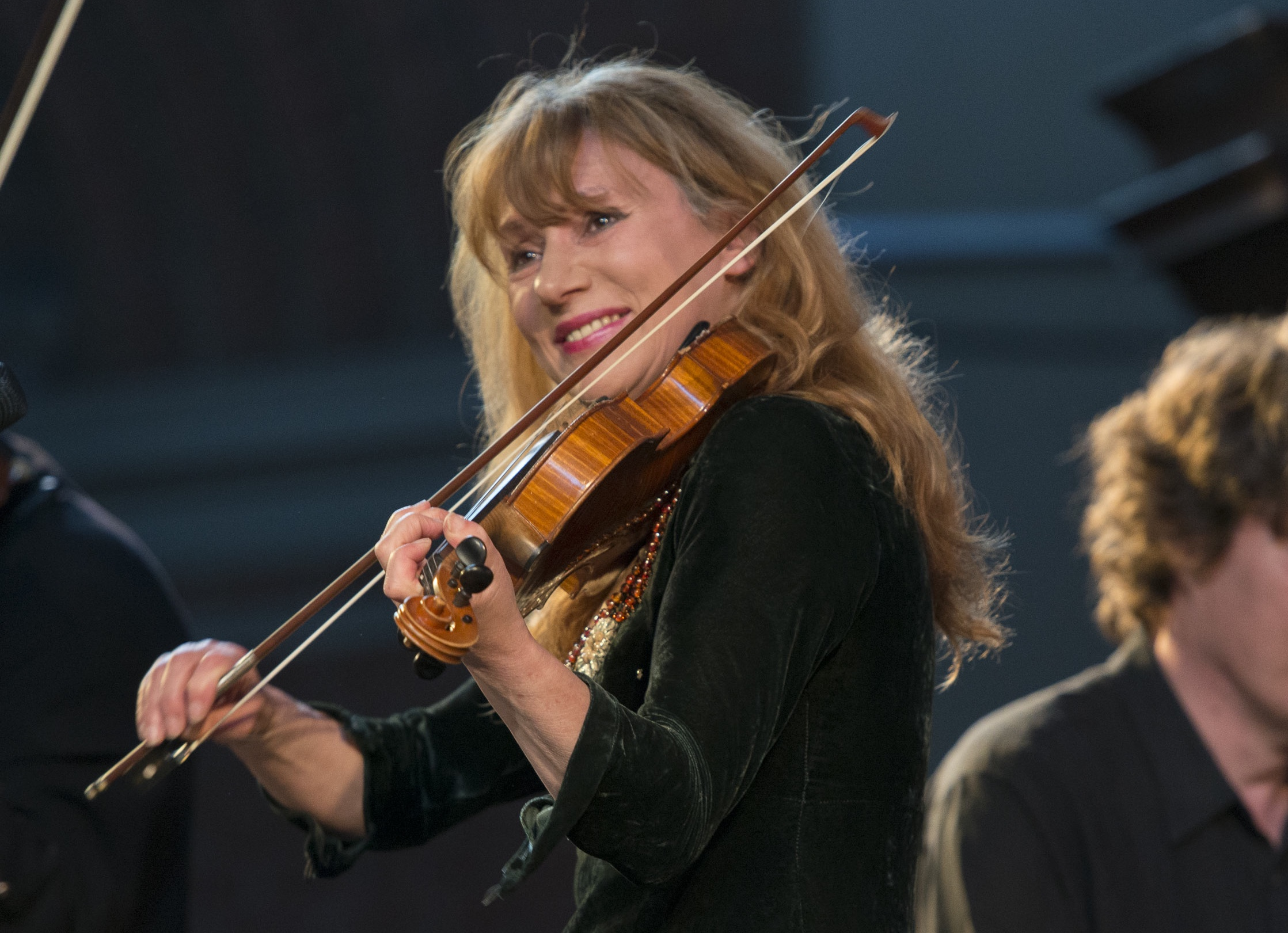 Lucie Skeaping playing violin